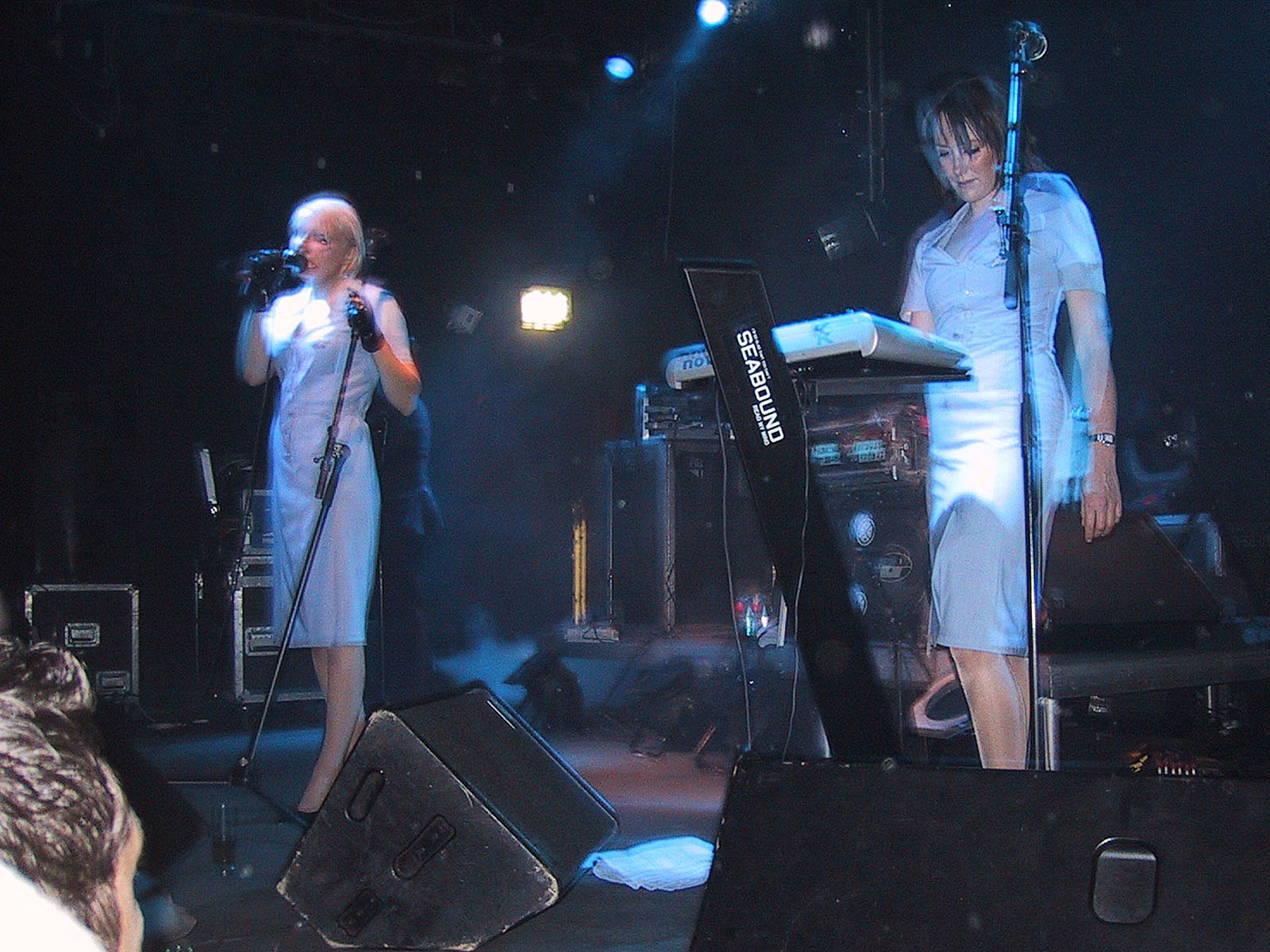 Die Electropop Band CLIENT bei einem Konzert in der Kulturfabrik (Kufa) The electropop Band CLIENT at a concert in the KULTURFABRIK Date: Sept 2005, Krefeld, Germany Author: Maschinenjunge Licence: cc-by-sa-2.5 Client (Band)